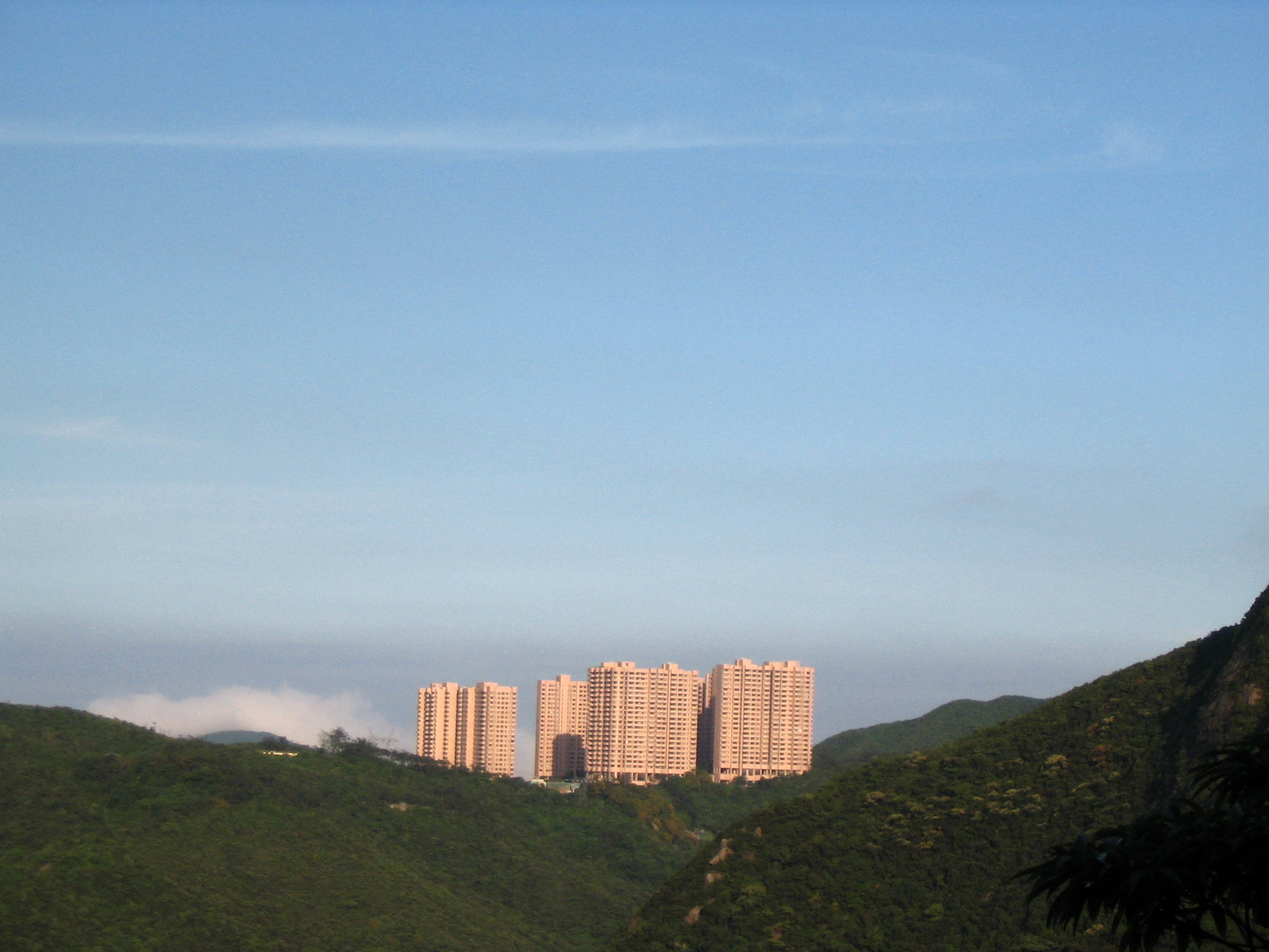 Photo of Hong Kong Parkview